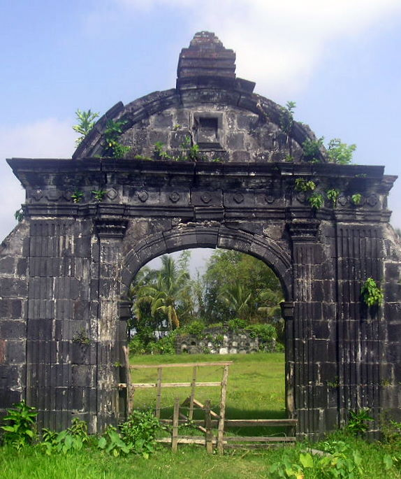 Orig. Flickr description: Malinao's colonial era cemetery survived the ravages of time. Olympus Camedia (PRRYA Summer Camp and RINCOMESA Provincial Forum on Sustainable Agriculture, April 2005). Slightly improved with Picasa.